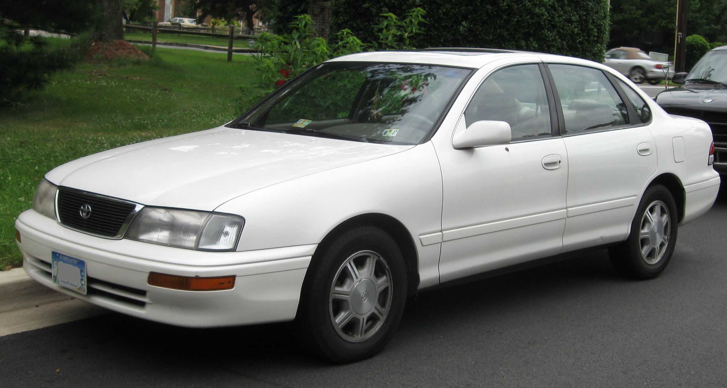 1995-1997 Toyota Avalon photographed in Fort Washington, Maryland, USA.